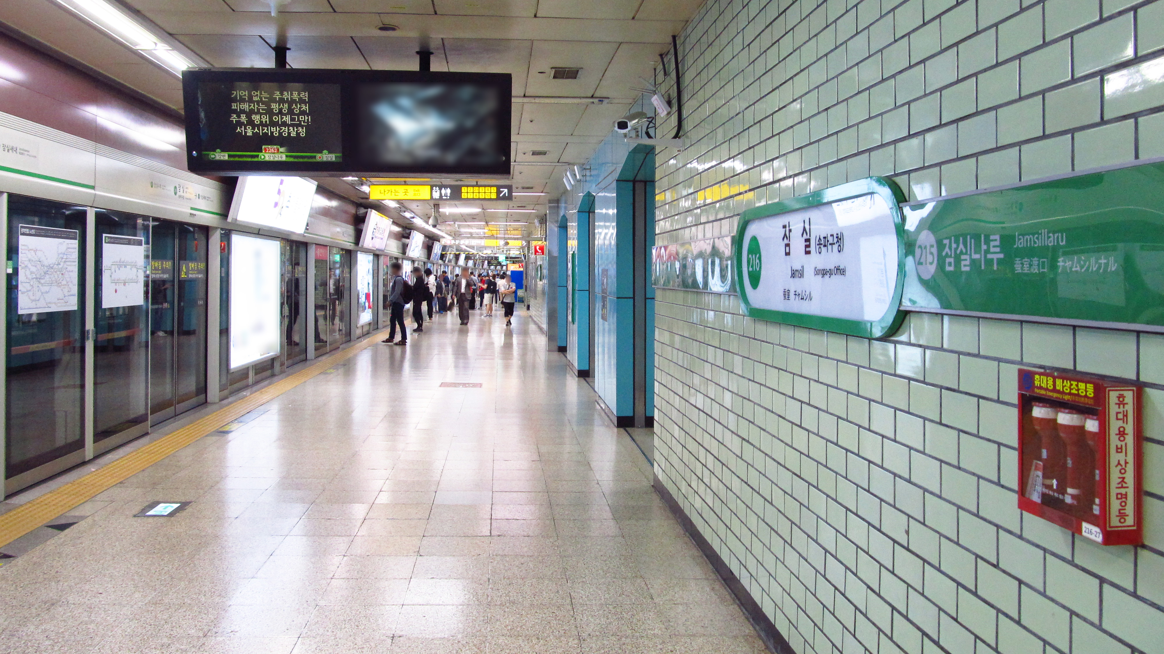 The platform at Jamsil Station on Seoul Subway Line 2 in Songpa-gu, Seoul, Republic of Korea(South Korea)